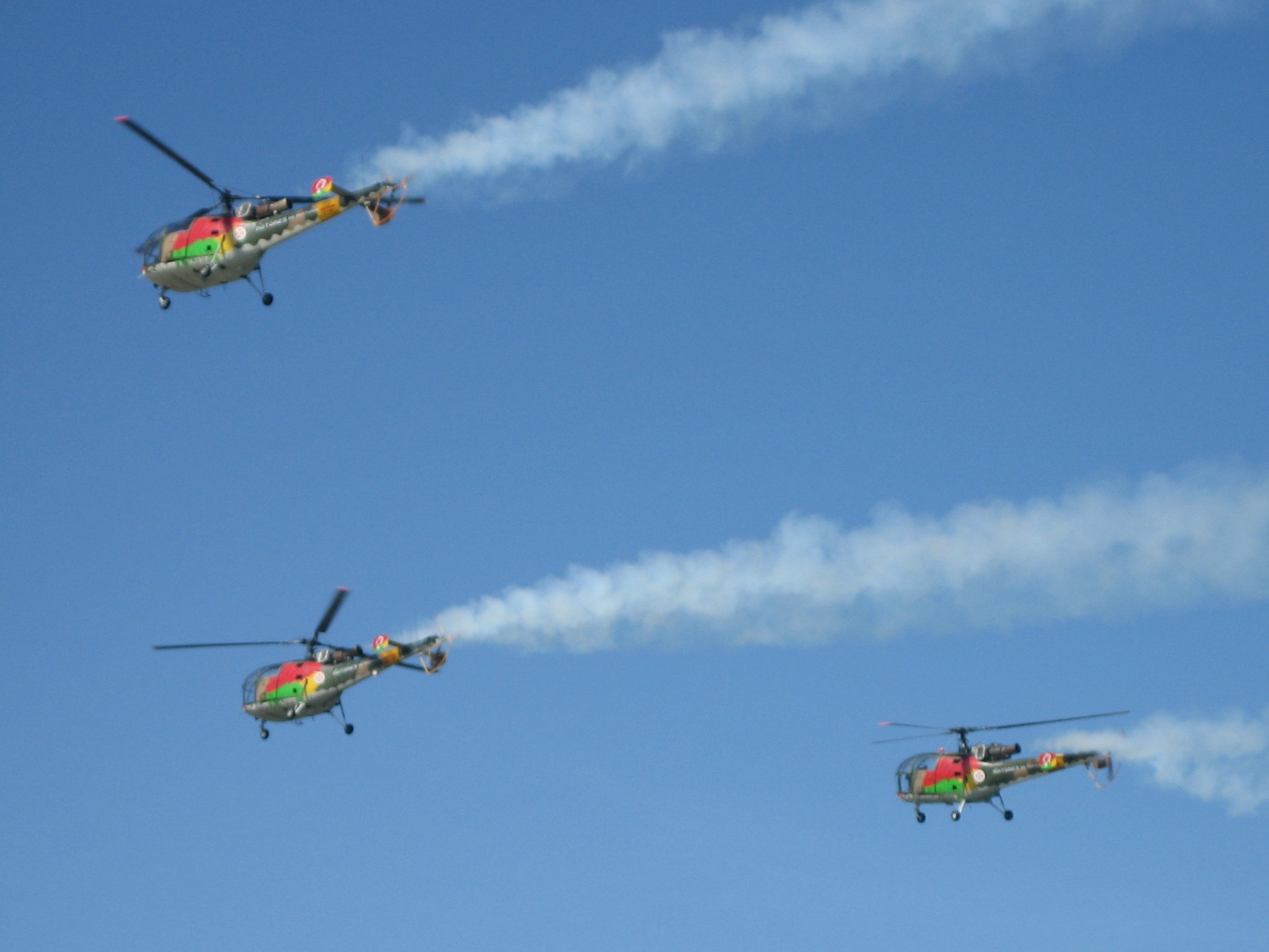 Rotores de Portugal, Vigo International Airshow, Spain.